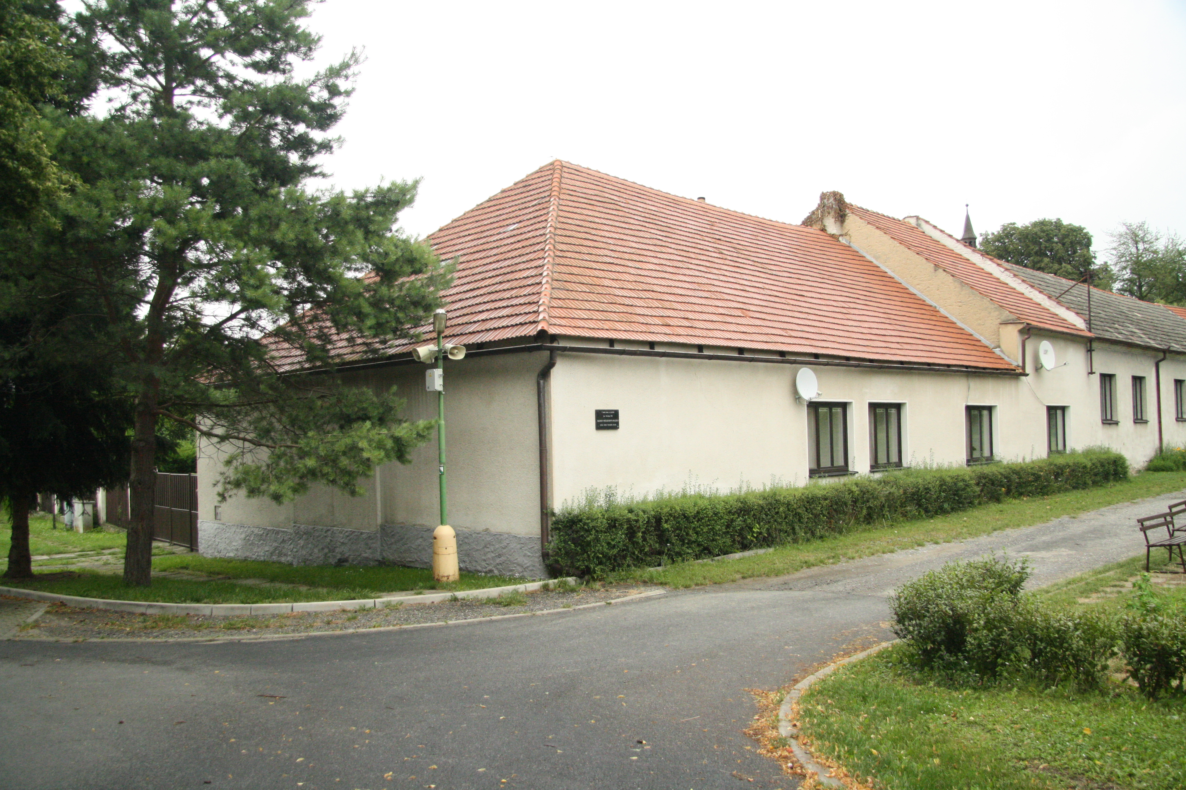 Native house of Blanka Wedlichová-Waleská in Cerhenice, Kolín District.